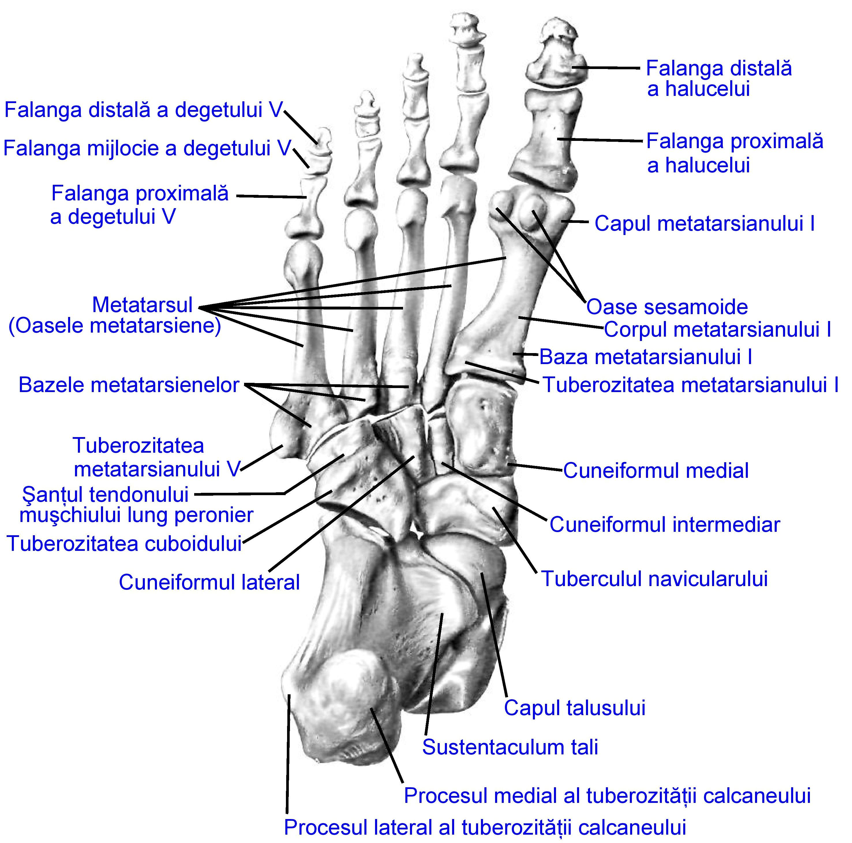 Tars, plantar surface